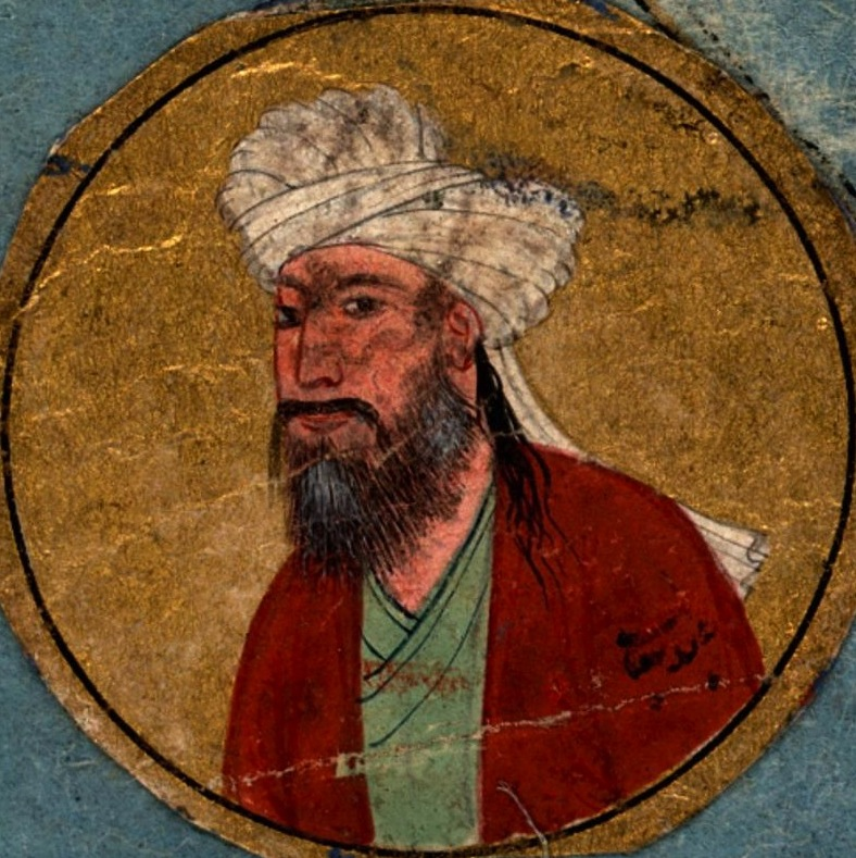 Abd Manaf of Qurayshi tribe, Muhammad's great-grandfather